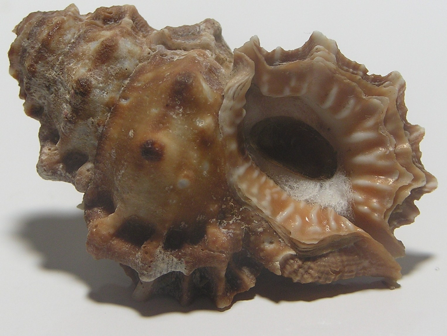 Bursa corrugata (Perry, 1811) (synonym: Bursa caelata (Broderip, 1833) ); family Bursidae; Panama